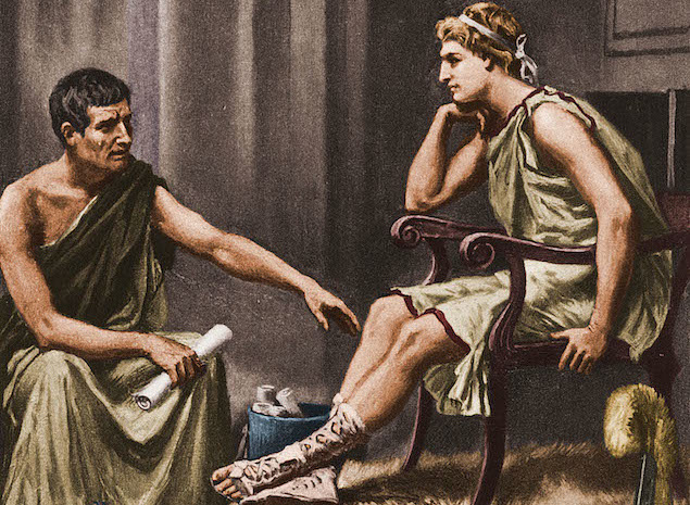 Alexander the Great (356 - 323 BC), later King of Macedon and conqueror of a vast empire stretching from the Balkans to India, listens studiously to his tutor, the philosopher Aristotle (384 - 322 BC), while they sit in a palace in ancient Pella, Greece, circa 342 BC. (Image by Stock Montage/Getty Images)